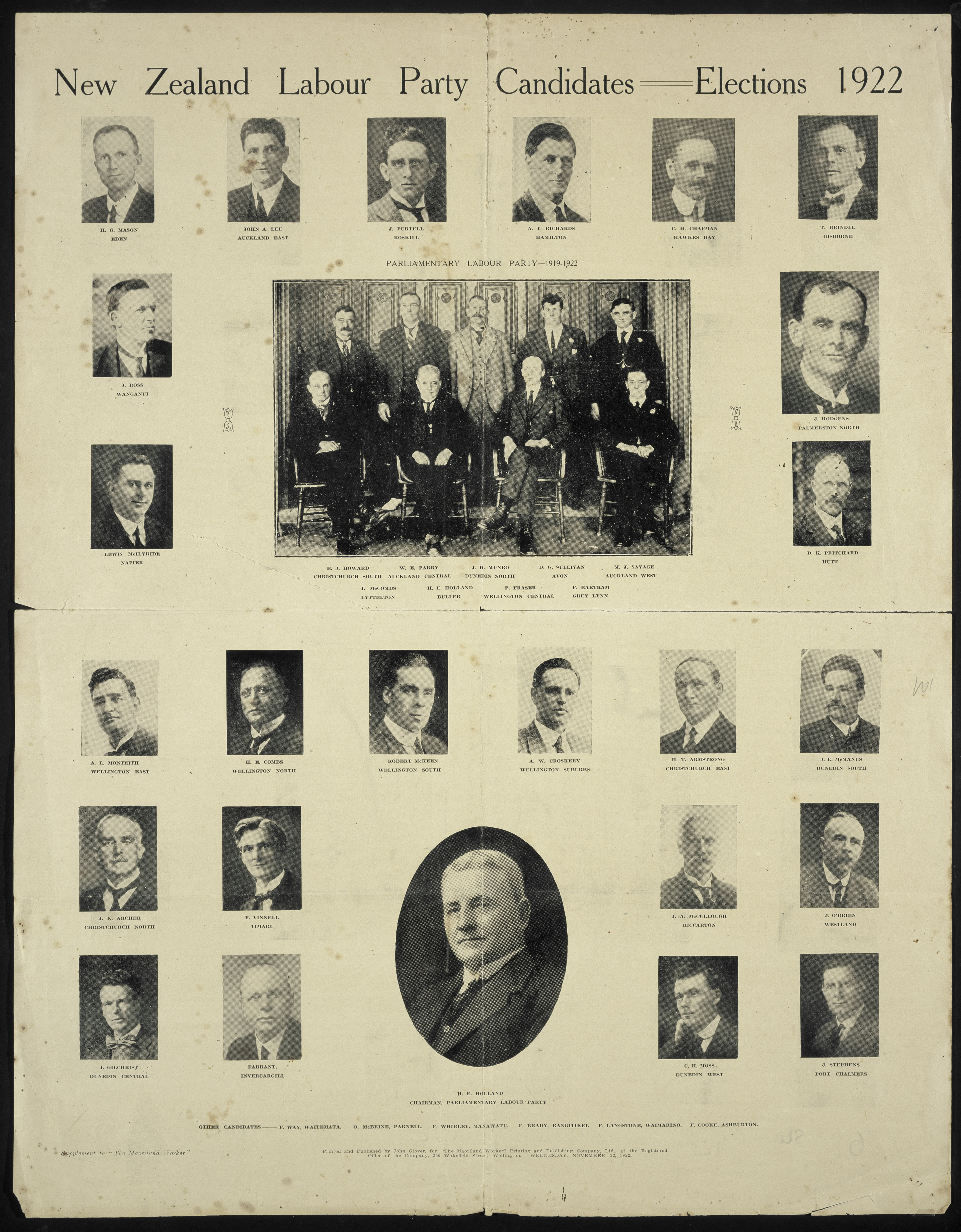 Shows a central group portrait of the members of the Parliamentary Labour Party: E J Howard (Christchurch South), W E Parry (Auckland Central), J H Munro (Dunedin North), D G Sullivan (Avon), M J Savage (Auckland West), J McCombs (Lyttelton), H E Holland (Buller), P Fraser (Wellington Central), F Bartram (Grey Lynn). Around this are arranged head and shoulder portraits of other Labour Party candidates: H G Mason (Eden), John A Lee (Auckland East), J Purtell (Roskill), A T Richards (Hamilton), C H Chapman (Hawkes Bay), T Brindle (Gisborne), J Ross (Wanganui), Lewis McIlvride (Napier), J Hodgens (Palmerston North), D K Pritchard (Hutt), A L Monteith (Wellington East), H E Combs (Wellington North), Robert McKeen (Wellington South), A W Croskery (Wellington Suburbs), H T Armstrong (Christchurch East), J E McManus (Dunedin South), J K Archer (Christchurch North), P Vinnell (Timaru), J A McCullough (Riccarton), J O'Brien (Westland), J Gilchrist (Dunedin Central), Farrant (Invercargill), C H Moss (Dunedin West), J Stephens (Port Chalmers). There is also a larger portrait of H E Holland, chairman of the Parliamentary Labour Party. Other candidates, not photographed, are listed: Way (Waitemata), O McBrine (Parnell), F Whibley (Manawatu), F Brady (Rangitikei), F Langstone (Waimarino), F Cooke (Ashburton).